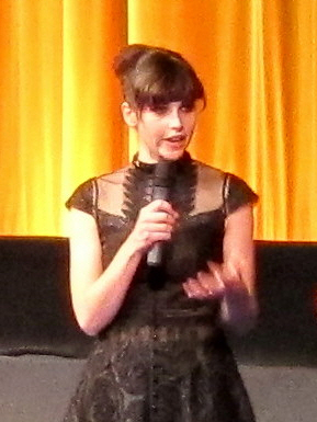 Felicity Jones at the London Film Festival 2011